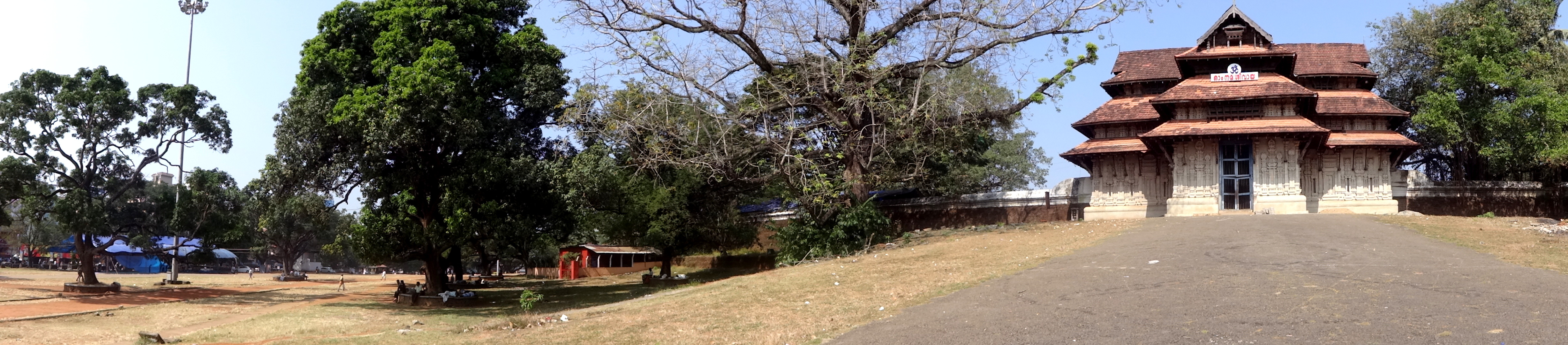 Thekkinkadu Maidan is an urban open space situated in the middle of Thrissur city